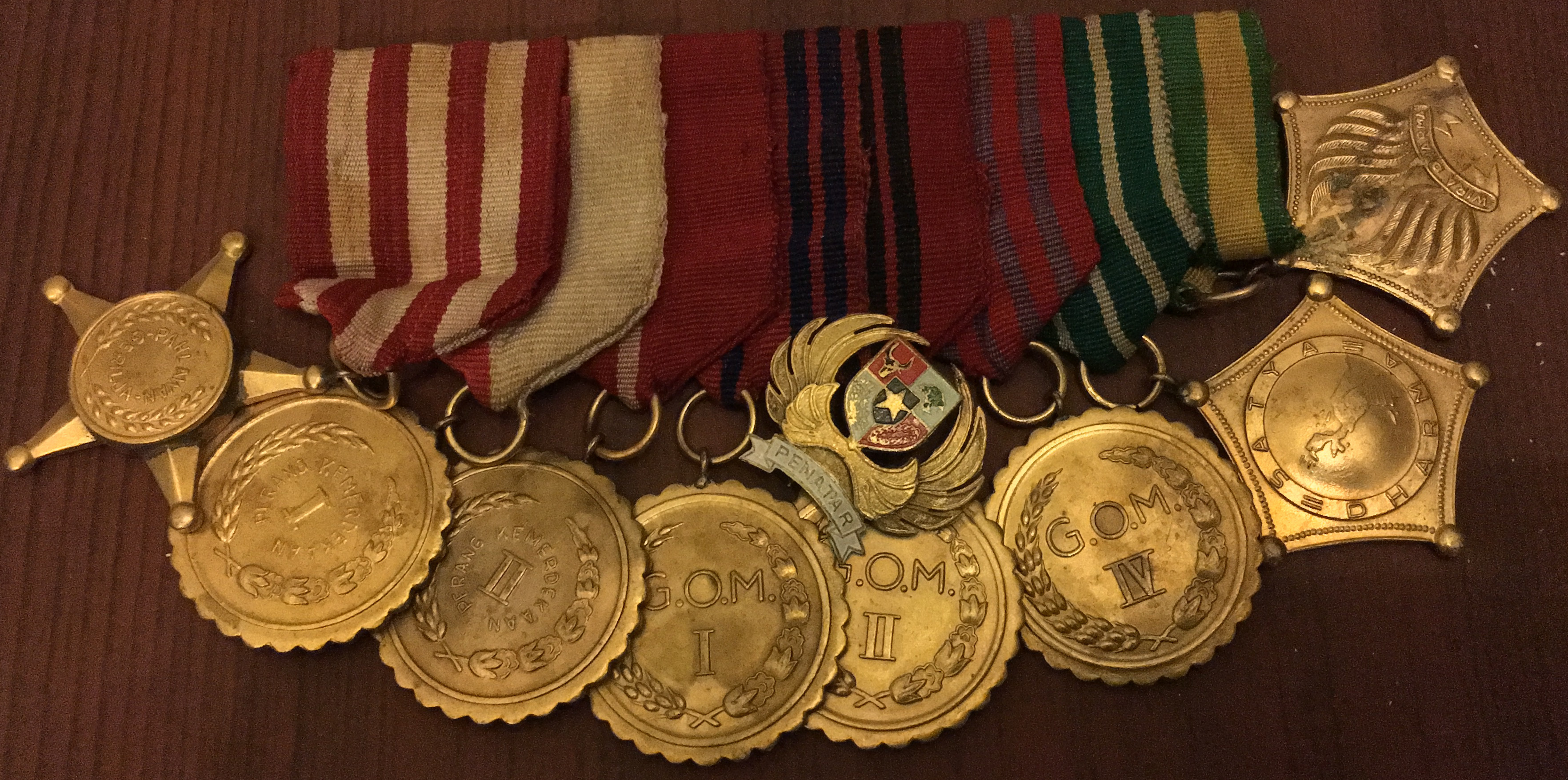 Military medals of Indonesia, this is from my grandfather.